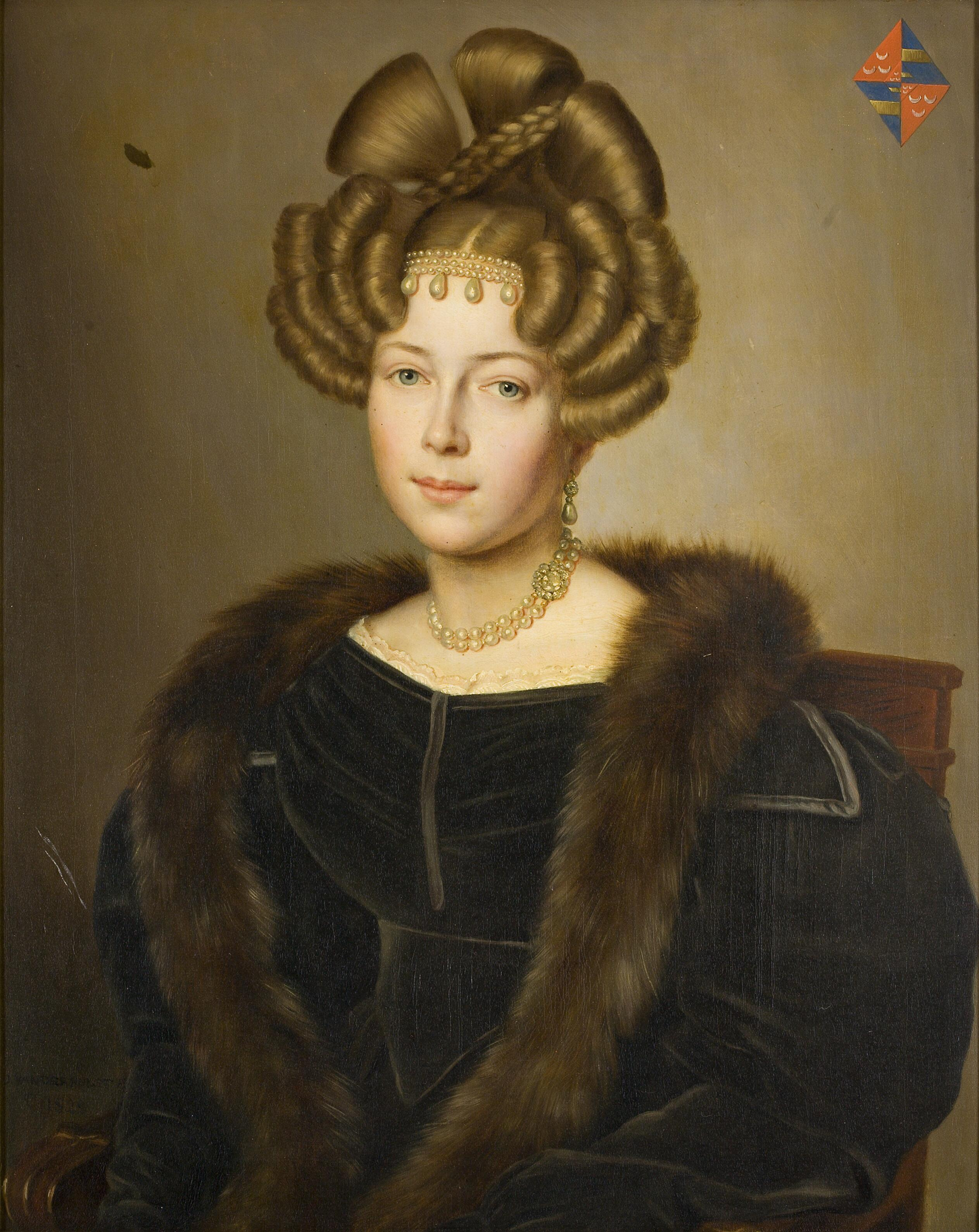 Maria Cornelia Gravin van Wassenaer (1799-1850) oil on canvas 74 x 61.5 cm signed b.l.: J B VANDERHULST F / 1829